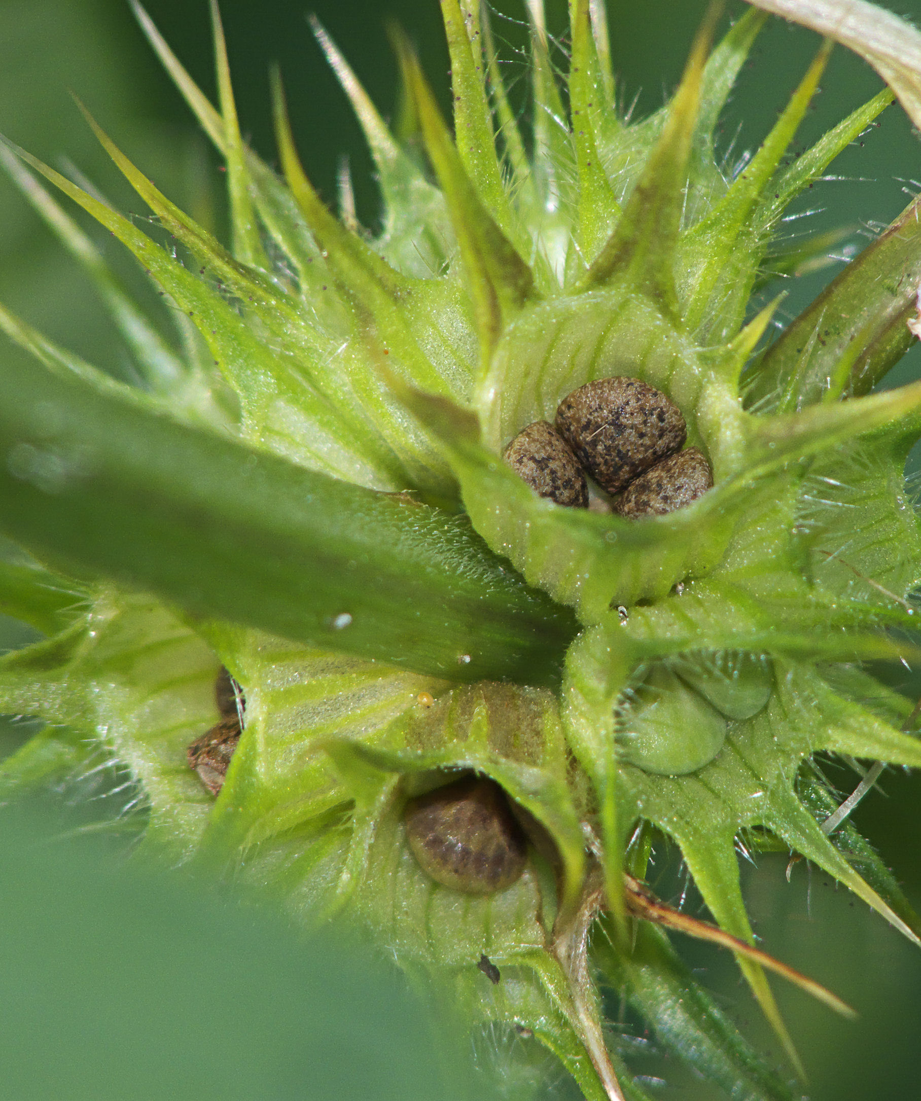 Galeopsis tetrahit seeds